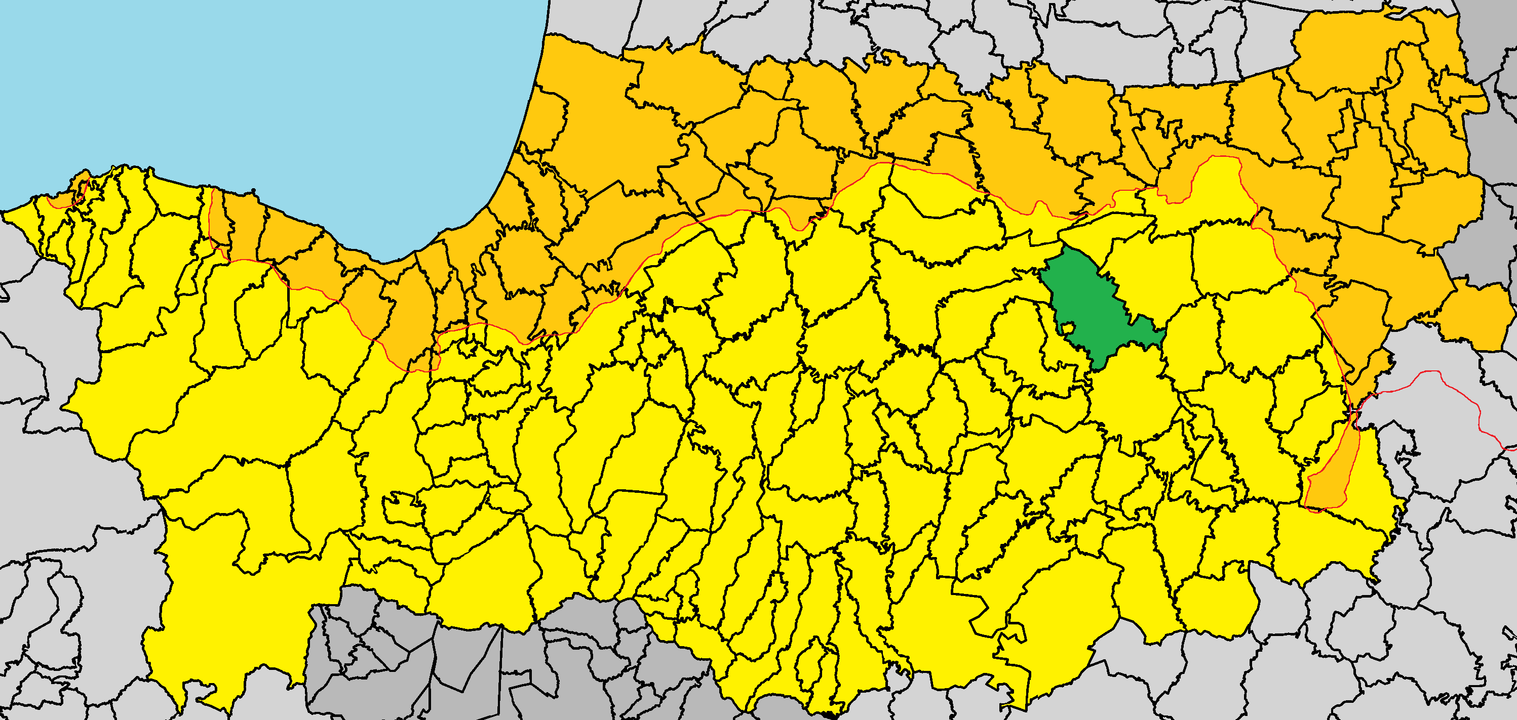 Lakatamia in Nicosia District.